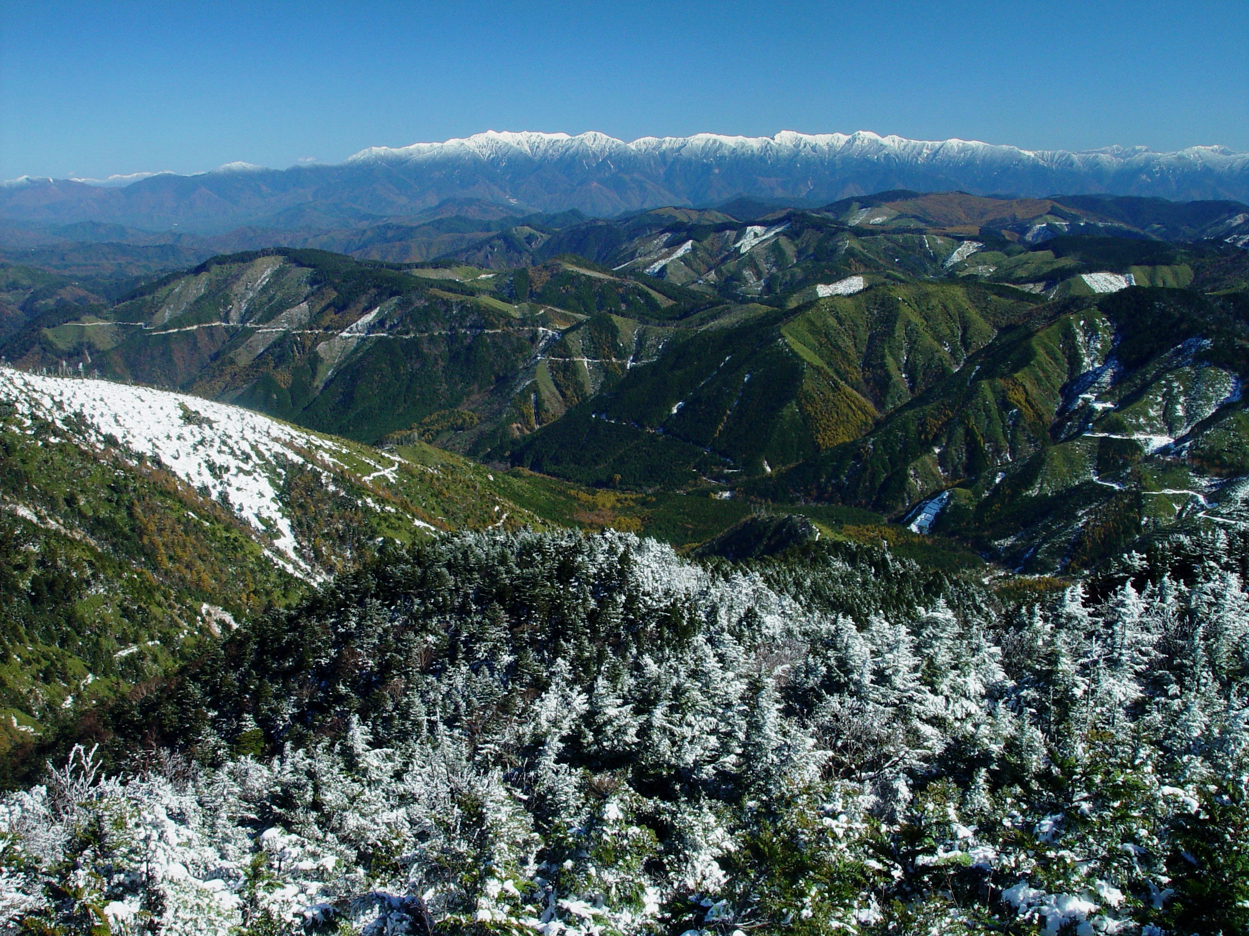 Kiso Mountains (Cyuō-Alps) from Mount Kohide